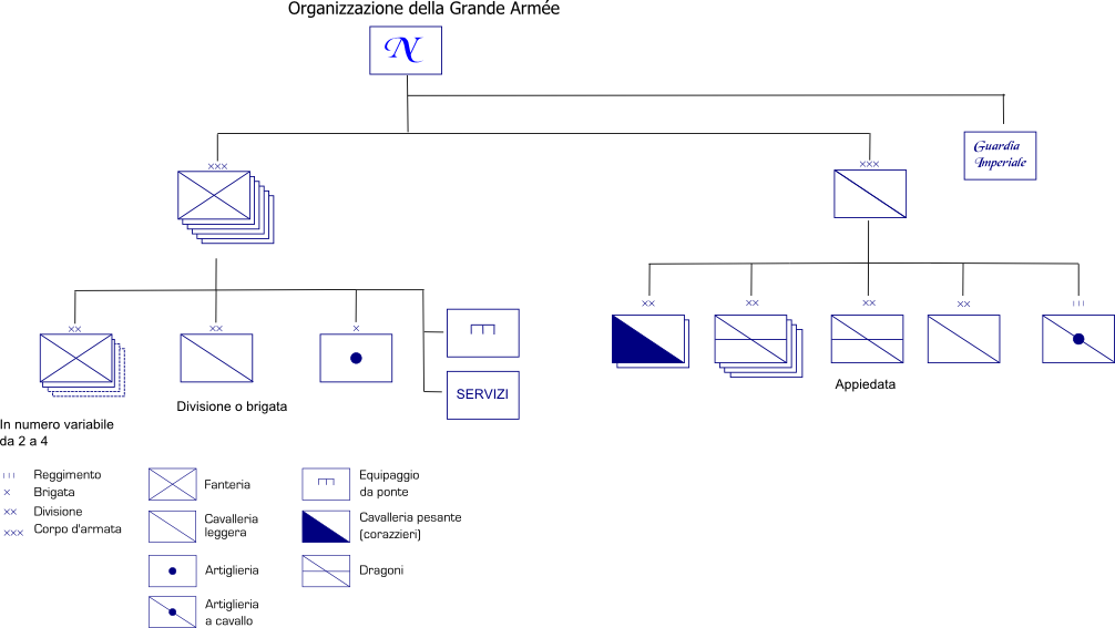 Organization of the Grand Armée (1805)